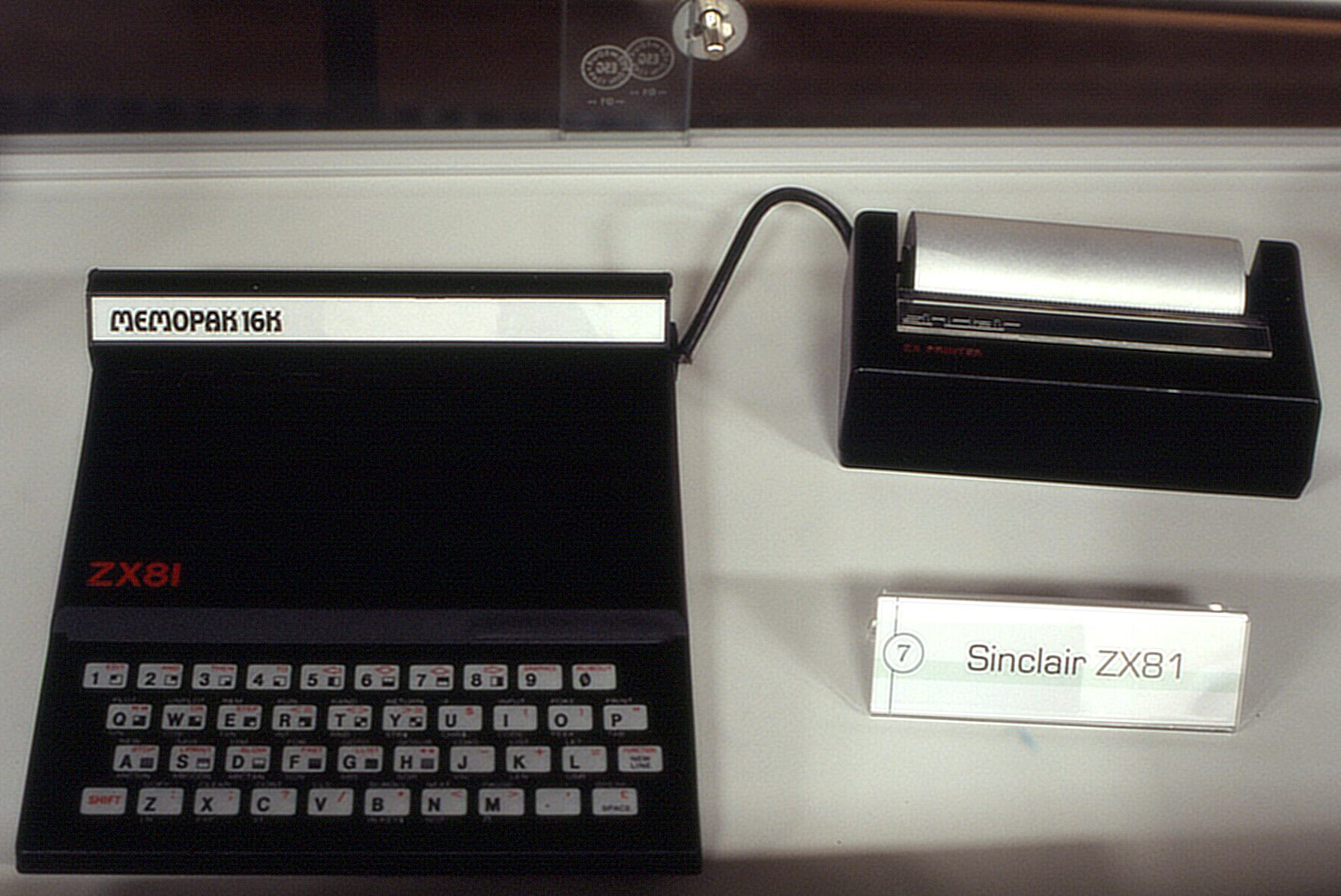 ZX81 with memory expansion and thermo printer